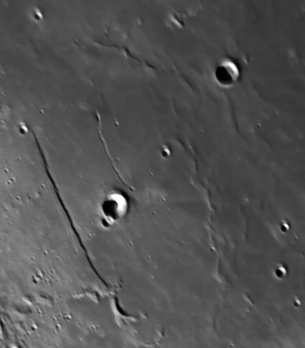 Rupes Recta and Rima Birt features on the Moon